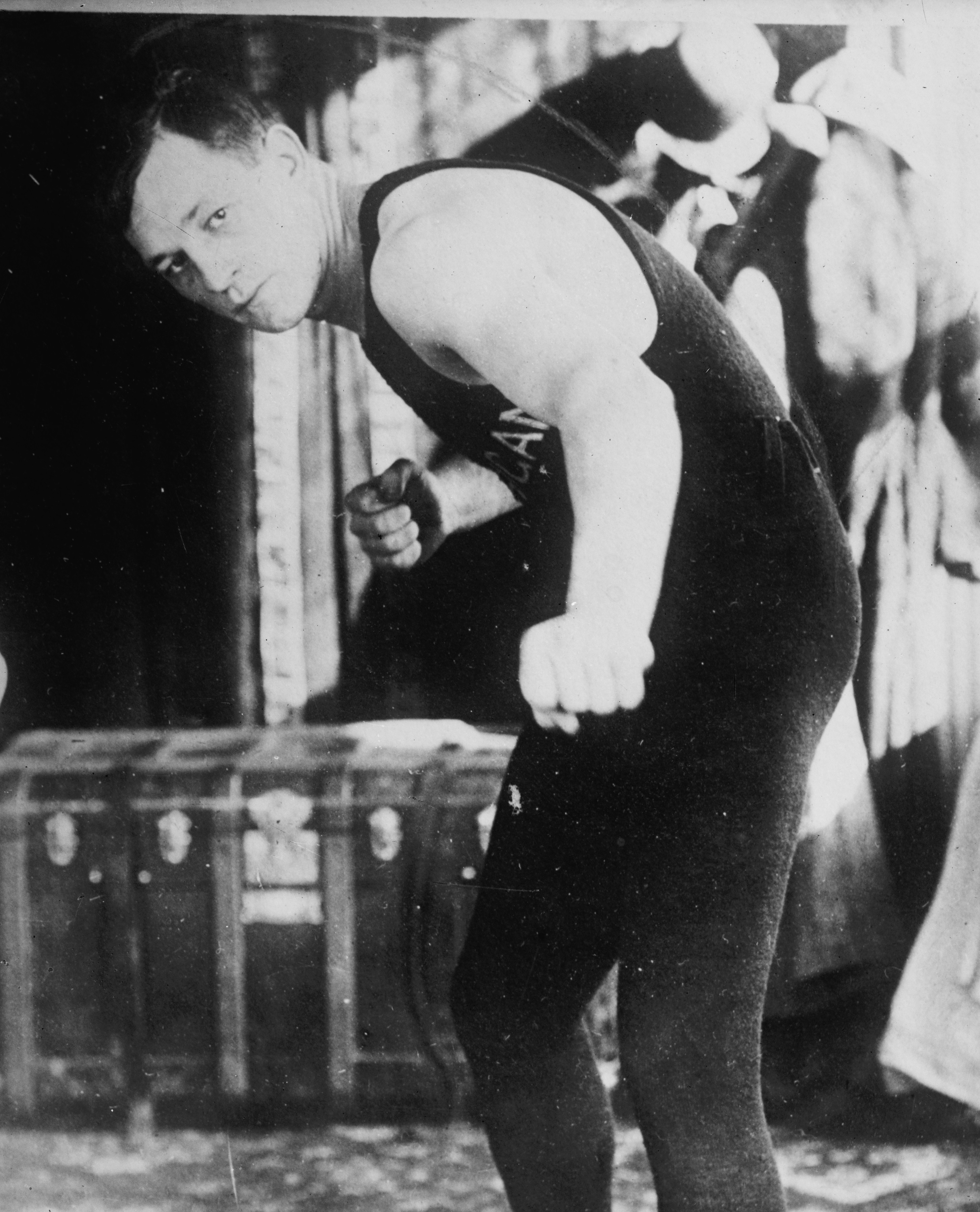 Bain News Service,, publisher. Ketchel [between 1910 and 1915] 1 negative : glass ; 5 x 7 in. or smaller. Notes: Title from unverified data provided by the Bain News Service on the negatives or caption cards. Forms part of: George Grantham Bain Collection (Library of Congress). Subjects: Boxing Format: Glass negatives. Repository: Library of Congress, Prints and Photographs Division, Washington, D.C. 20540 USA, General information about the Bain Collection is available at Persistent URL: Call Number: LC-B2- 2458-13